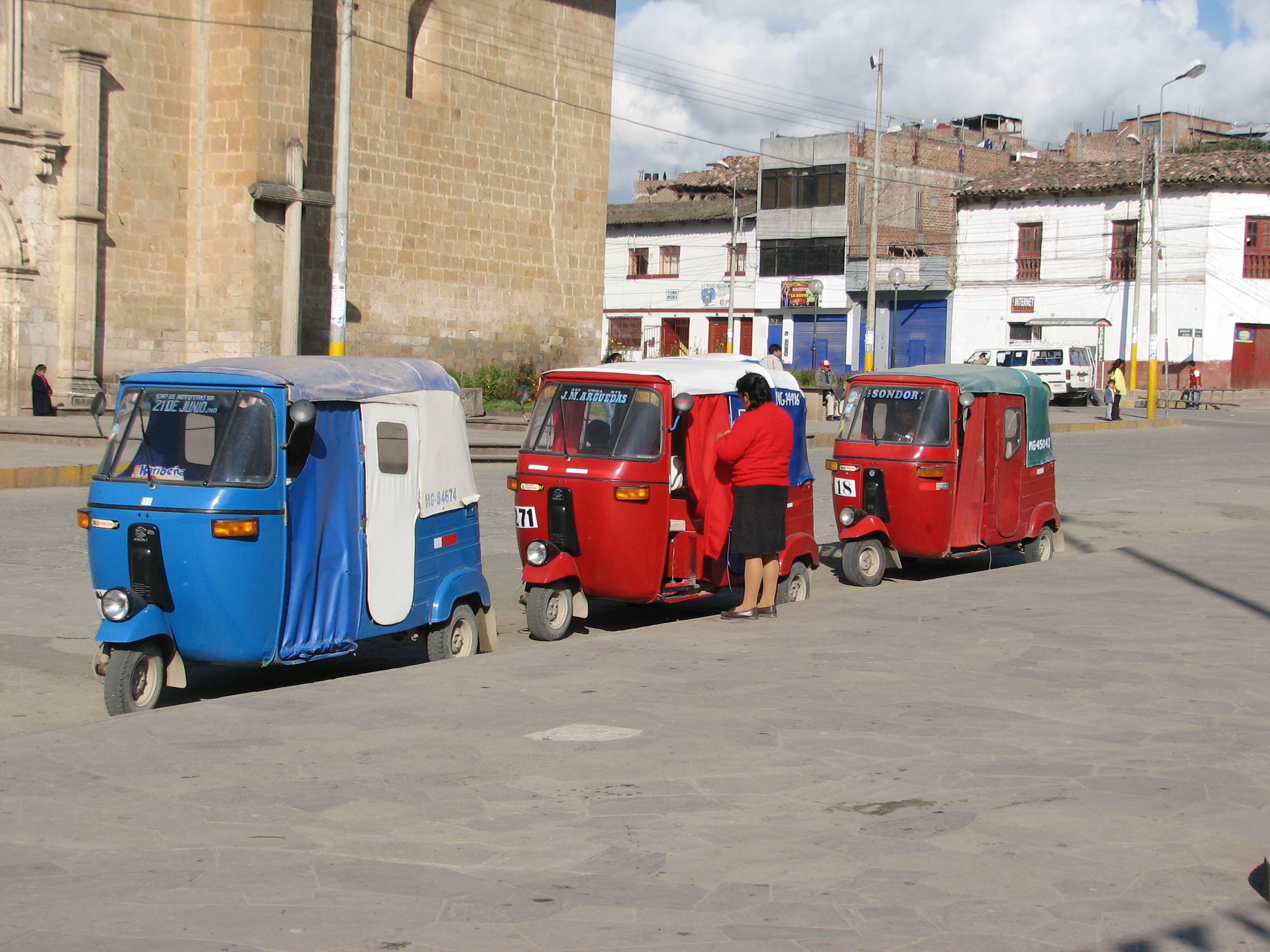 Mototaxis in Andahuaylas on central square near the church.